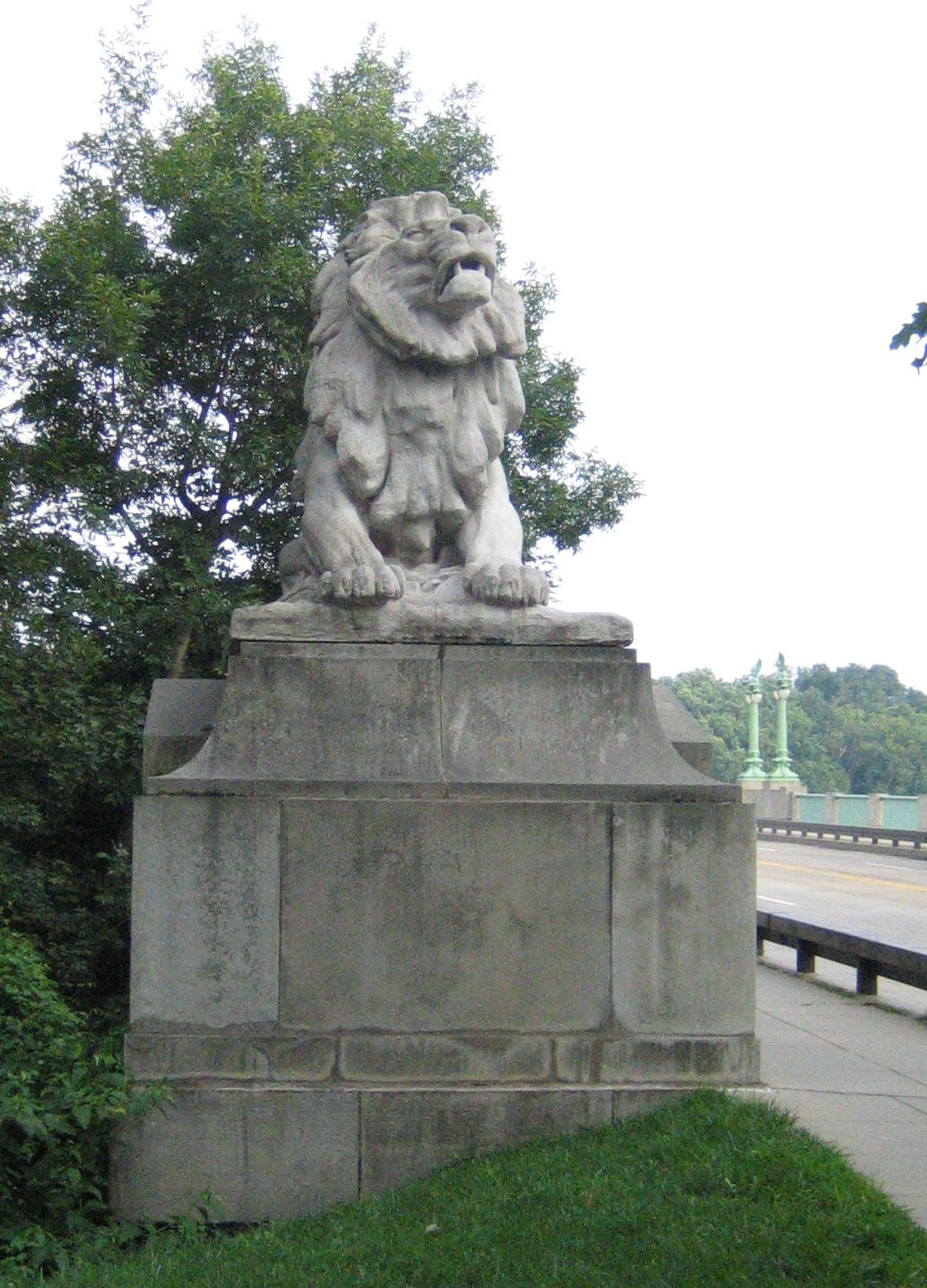 Lion sculpture at northern end of Taft Bridge in Washington, D.C.